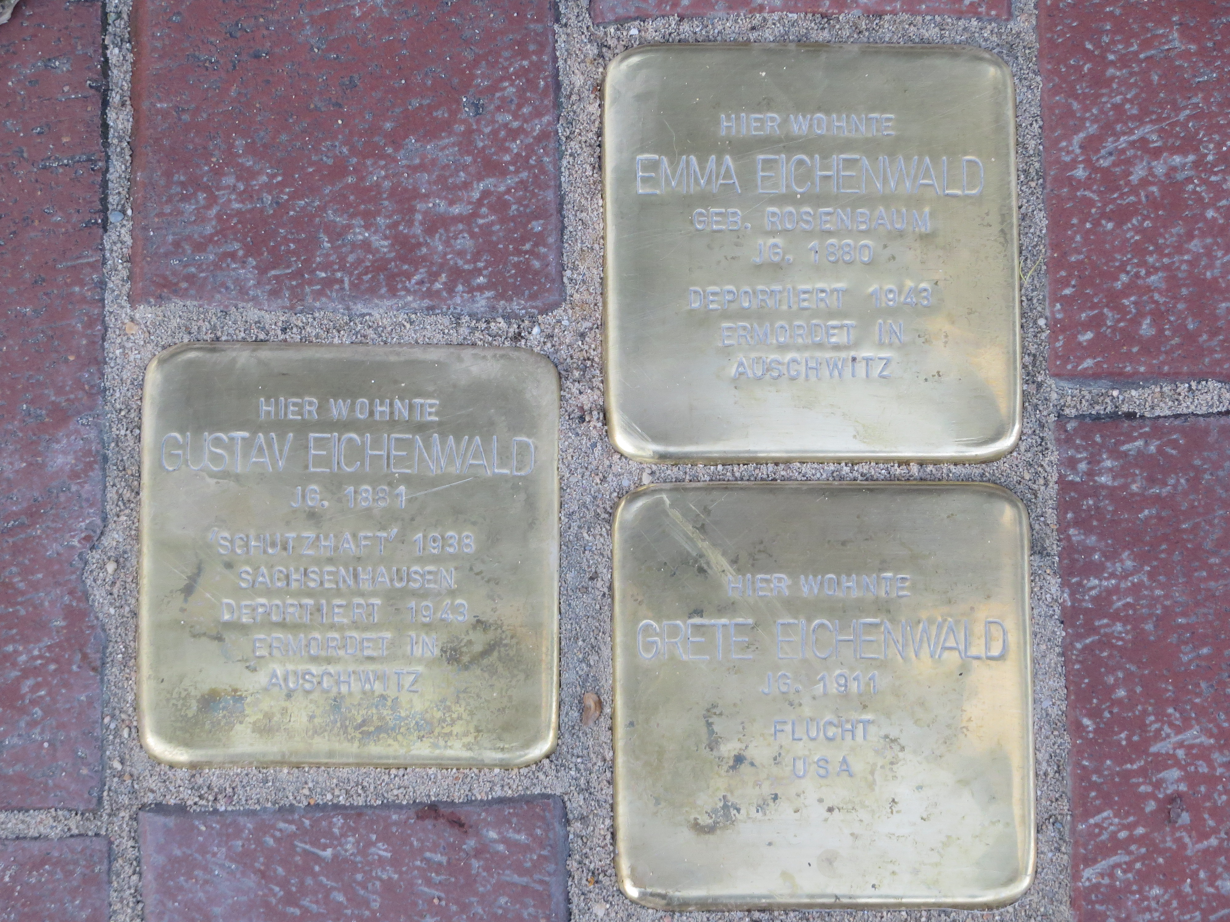 Stolpersteine at house Meesmannstraße 35 in Witten, Germany